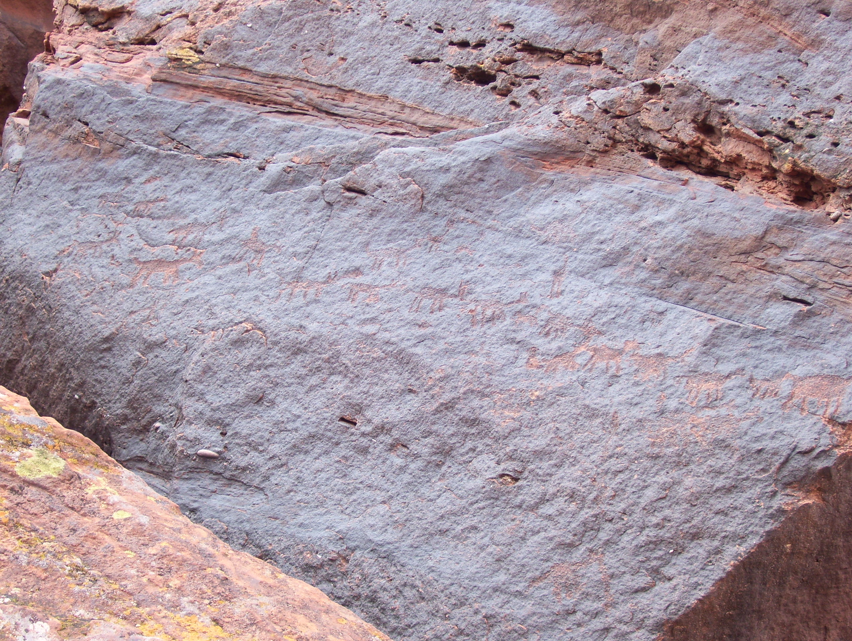 Petroglyph in Talampaya National Park, La Rioja, Argentina.